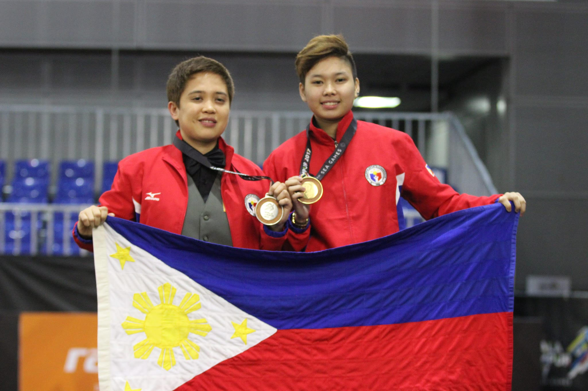 Chezka Centeno (right) flashes her gold medal after winning the 9-ball pool women's singles on August 27, 2017 at the 29th SEA Games in Kuala Lumpur, Malaysia. She defeated compatriot Rubilen Amit (left) who settled for silver. (PNA photo by Primo Agatep)